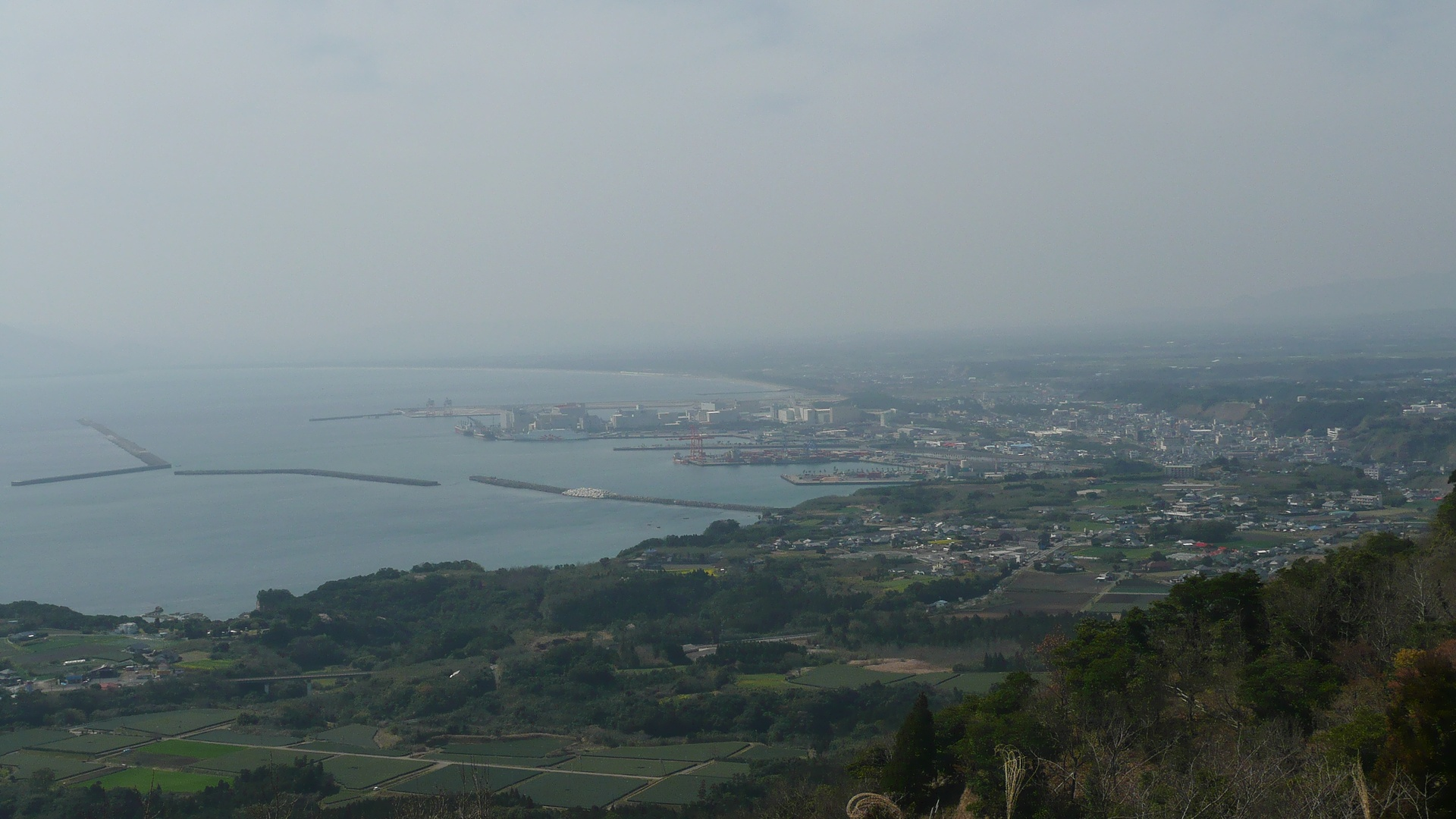 Port of Shibushi in Shibushi City, Kagoshima Prefecture, Japan, seen from Mount Jin (Jingaku)